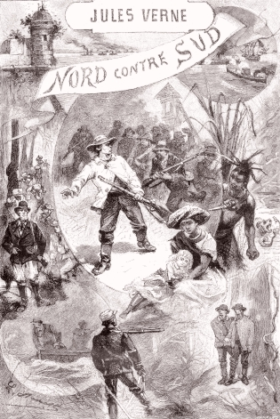 An ilustration from the novel "North Against South" (or "Texar's Revenge, or, North Against South") by Jules Verne painted by Léon Benett.